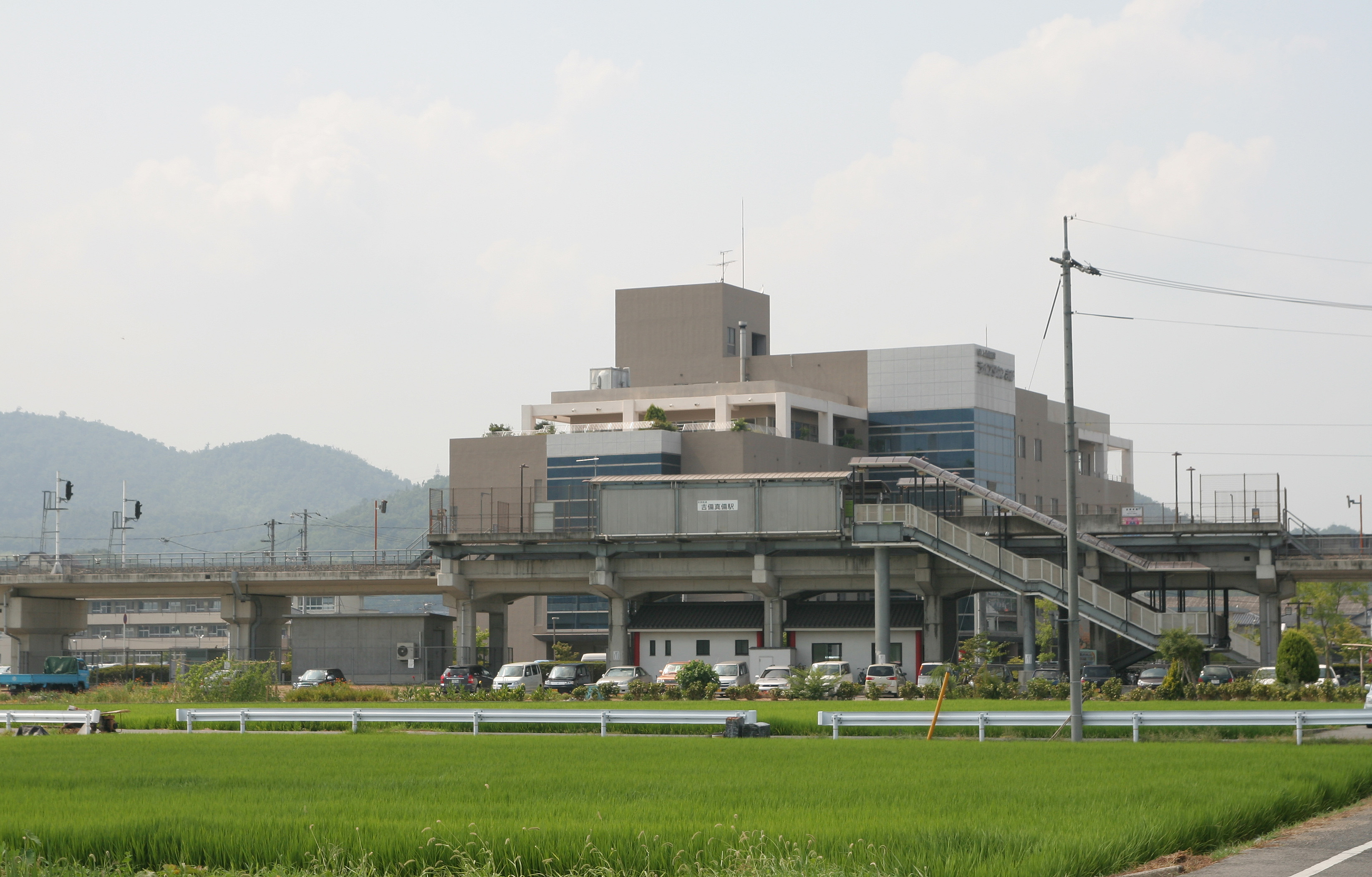 Ibara Railway kibino-makibi sta entire circumstances